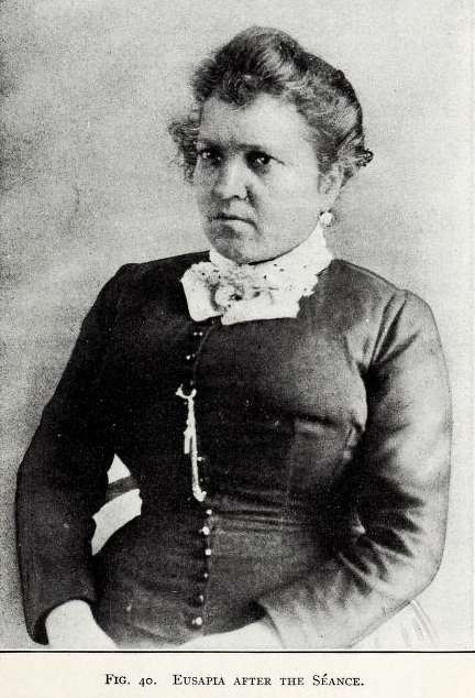 Eusapia Palladino after a séance.